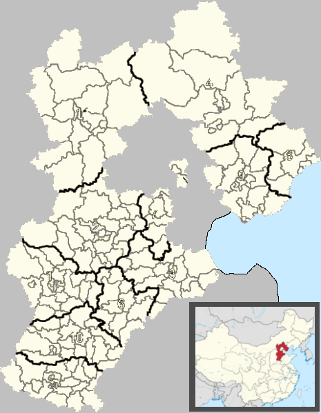 Map of Hebei Province, and location within the P.R.C.